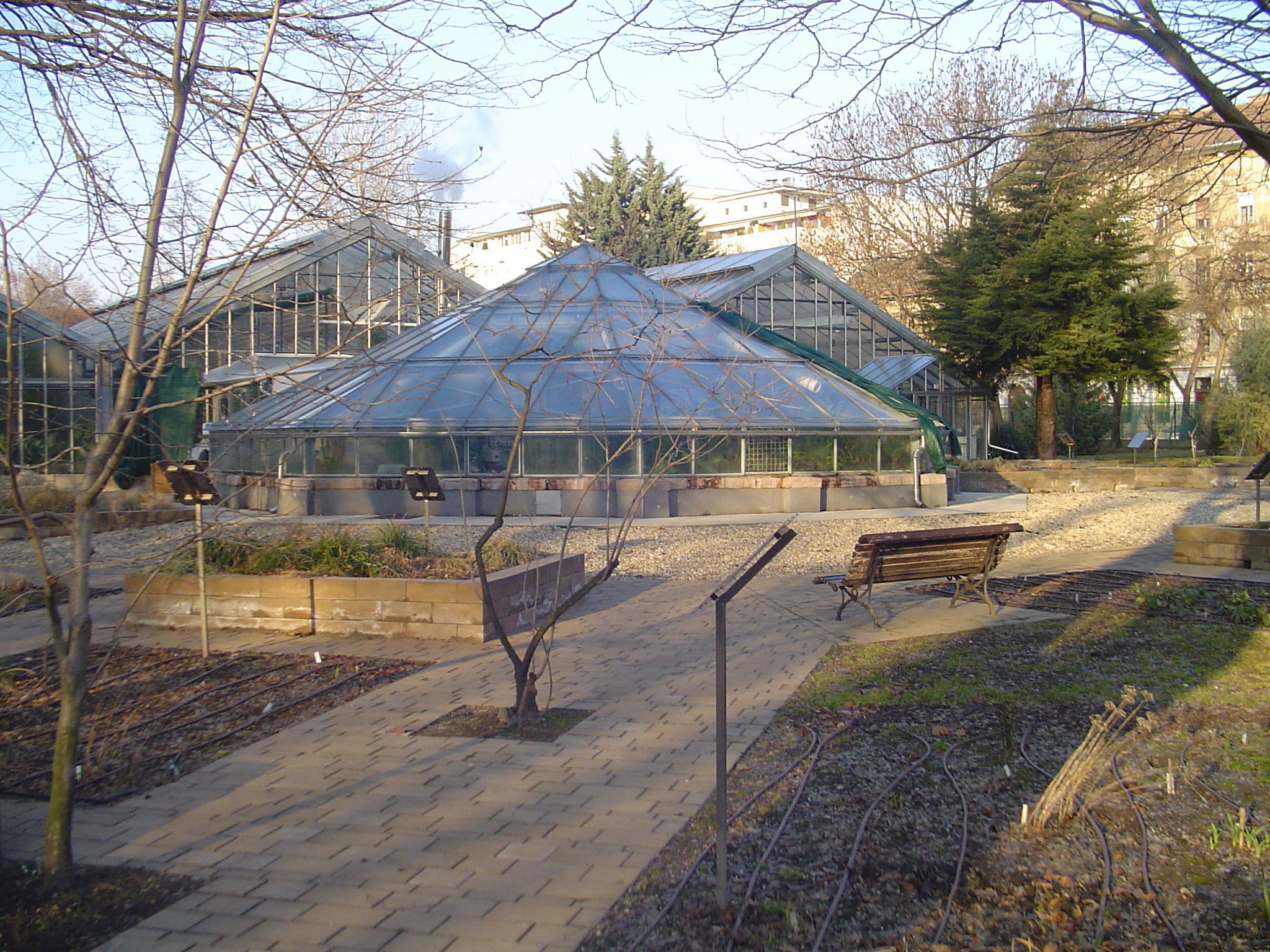 Greenhouse (Hungary Budapest botanical garden called Füvészkert)